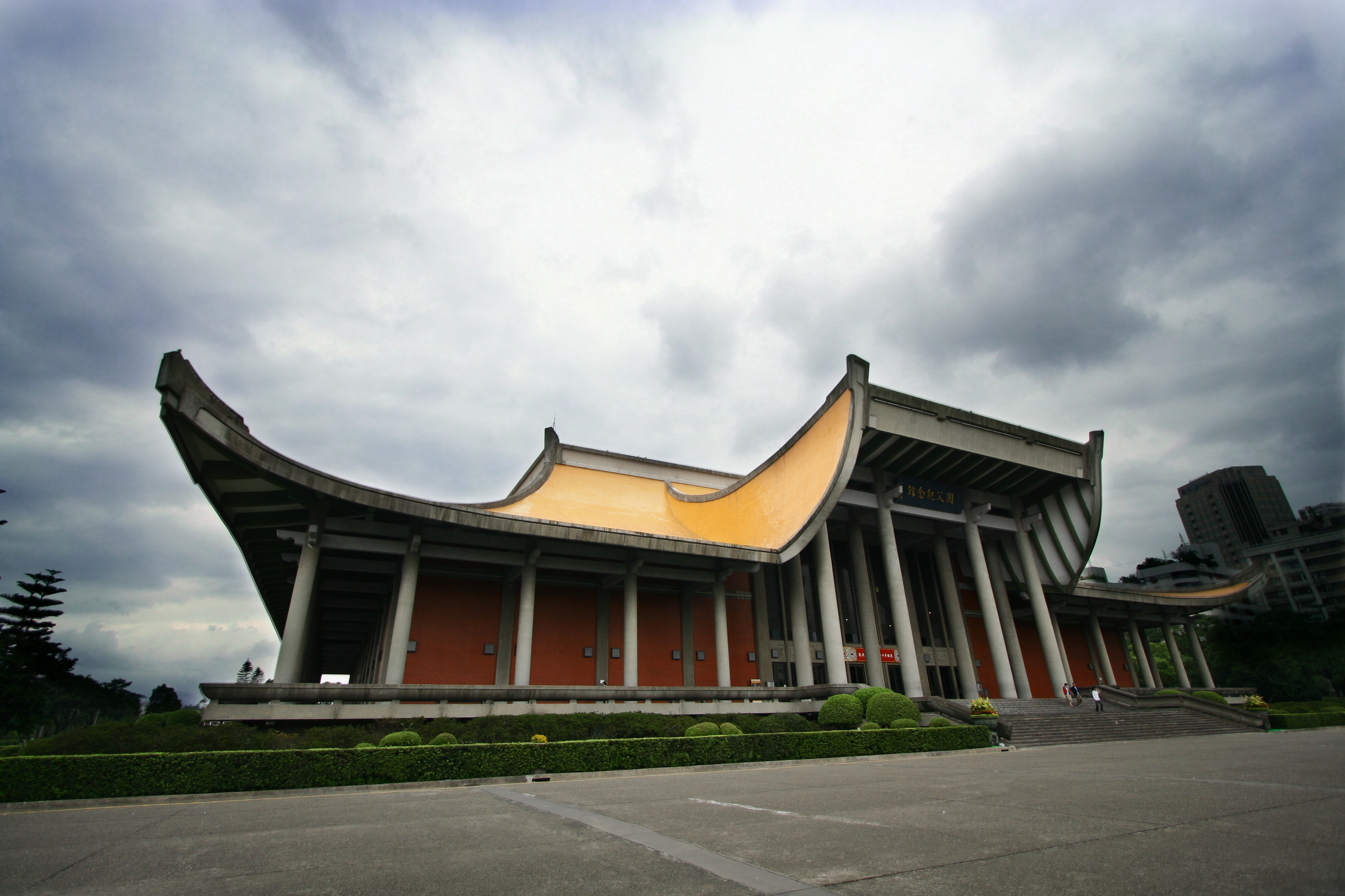 The Sun Yat-Sen Memorial Hall in Taipei. Exterior.